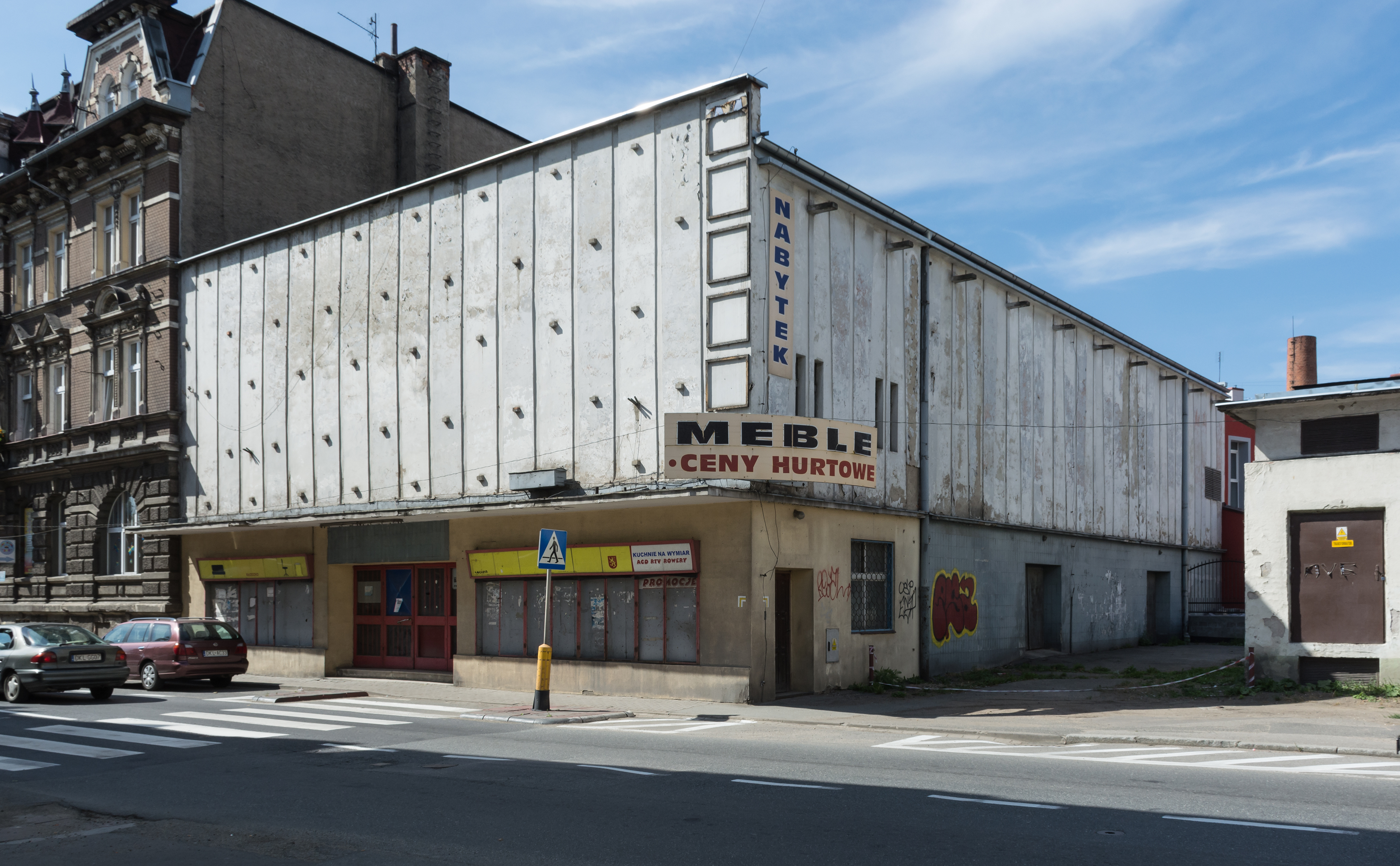 3 Połabska Street in Kłodzko